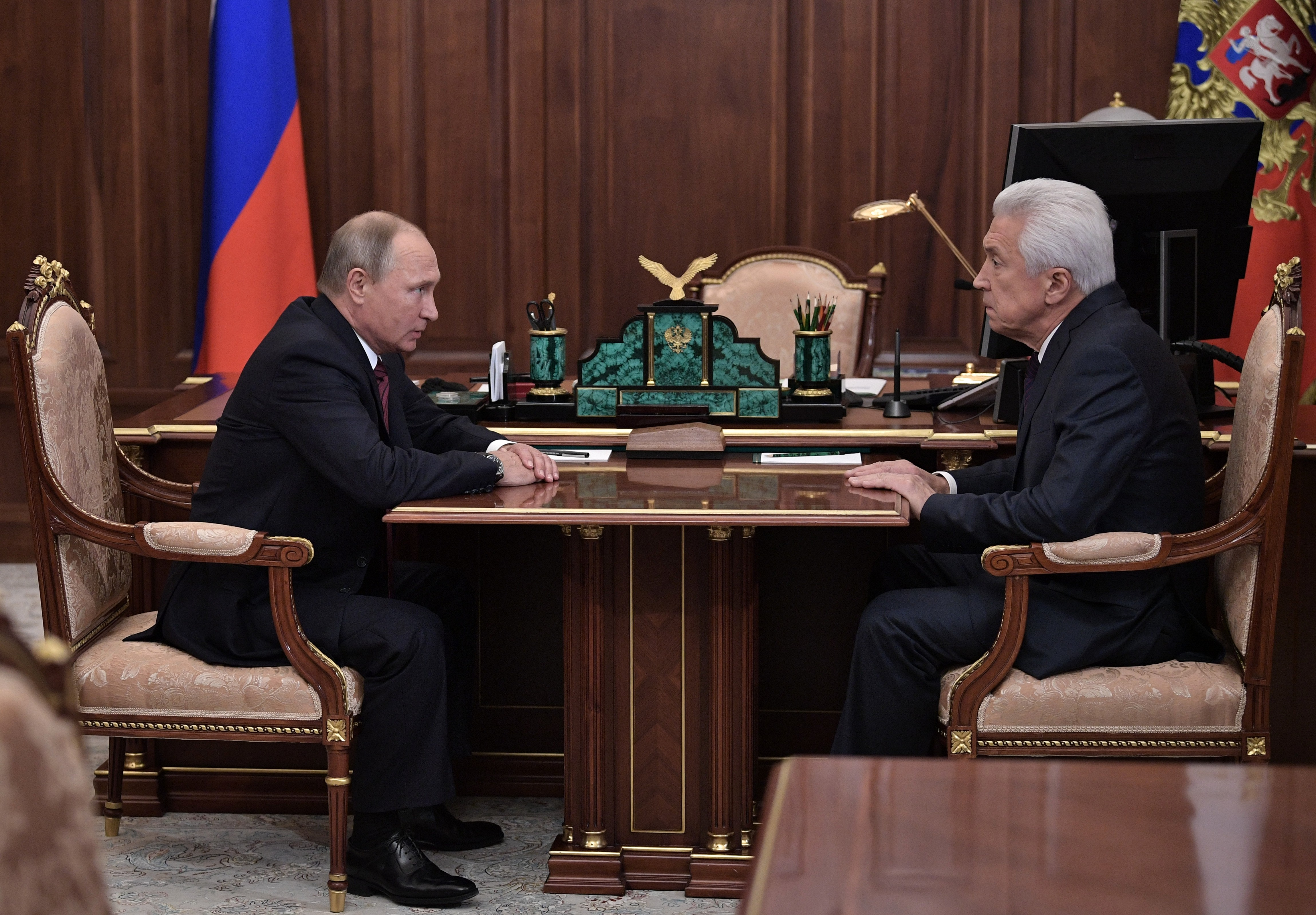 Vladimir Vladimirovich Putin & Vladimir Abdualievich Vasiliev in Moscow, The Kremlin, 3 October 2017